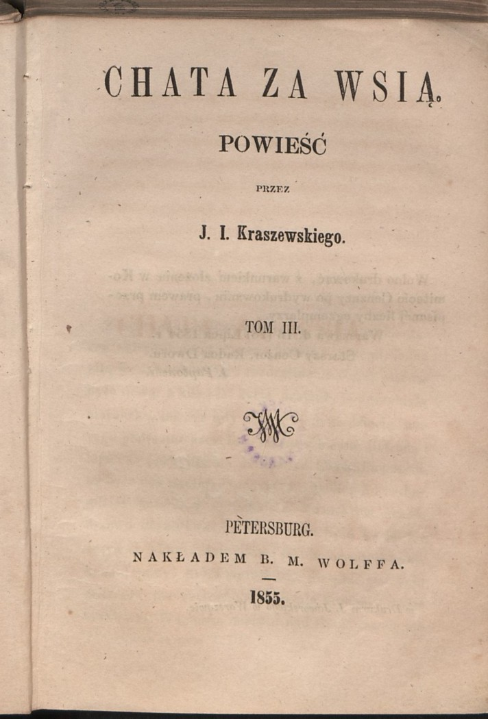 novel